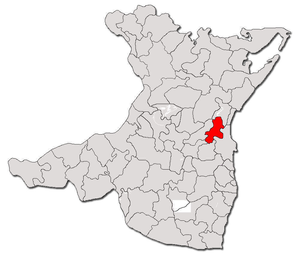 Countour map of Ovidiu town